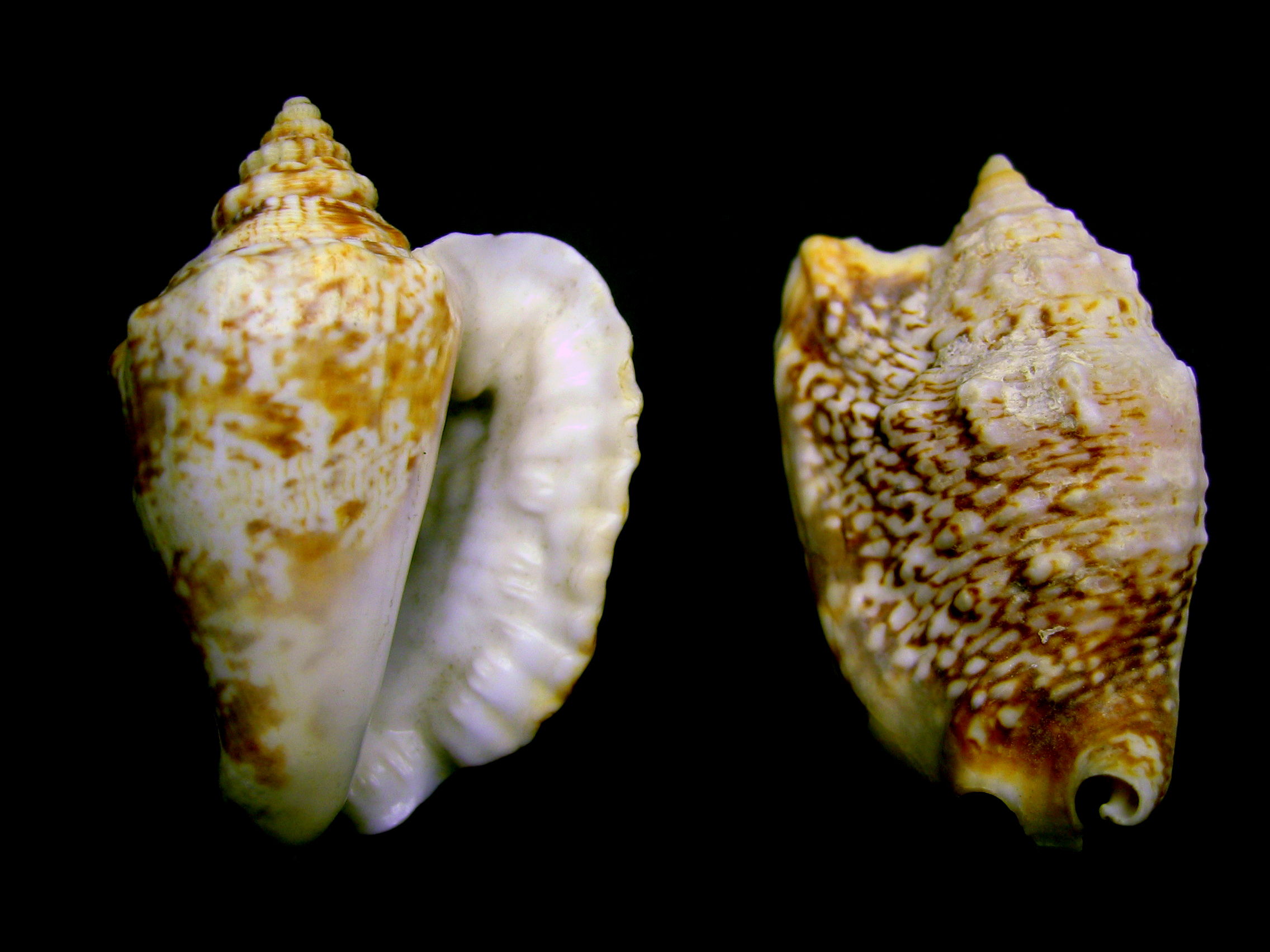 Macro of an Hawkwing Conch ( Lobatus raninus - synonym : Strombus raninus).